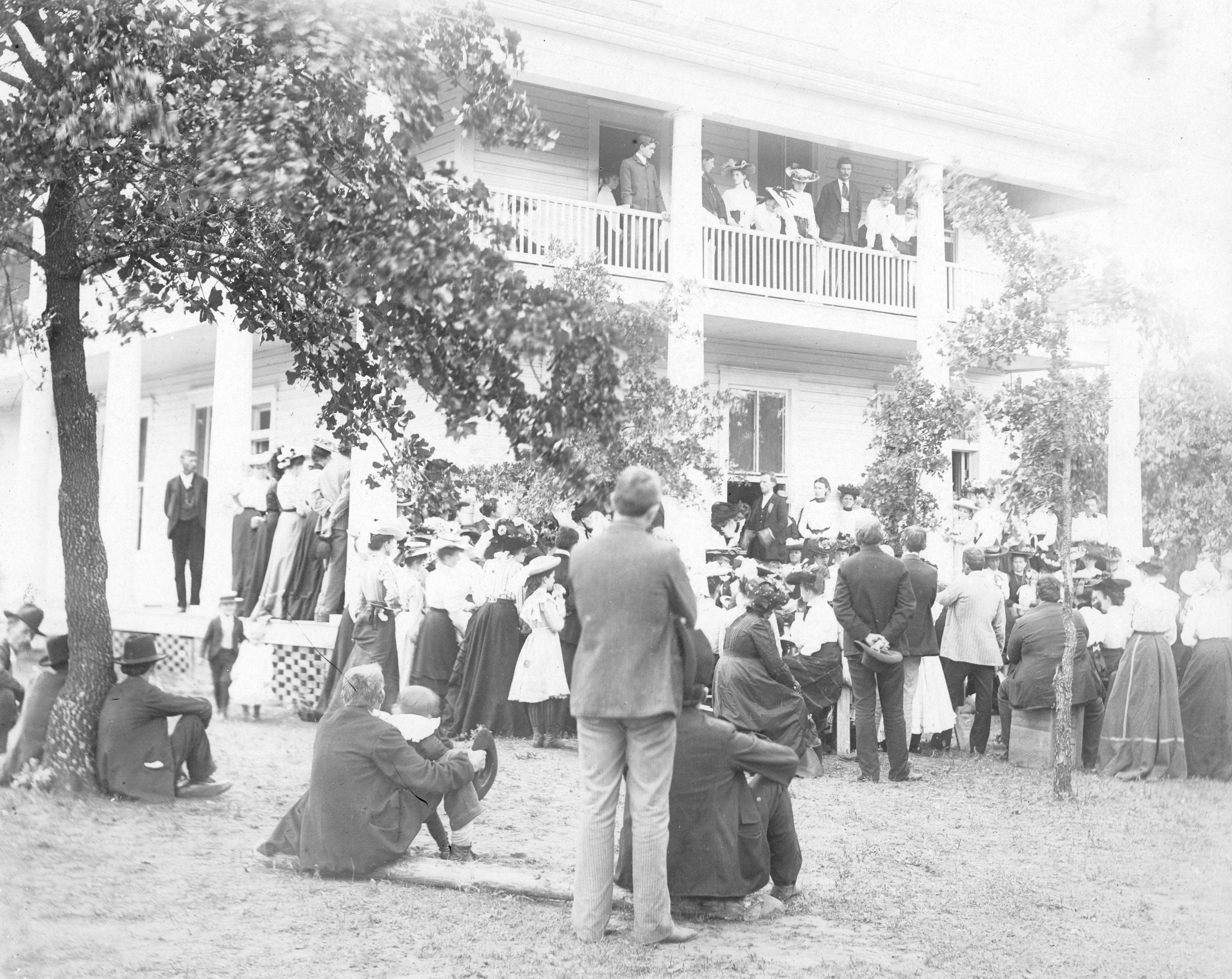 Berachah Home dedication service – people standing on lawn looking toward front porch, May 14, 1903. The label on the image reads: "No. 3. Berachah Industrial Home for Redemption and Protection of Erring Girls. Taken during the dedication service, conducted by the Superintendent. The picture only shows a small part of the crowd present and was taken, May 14th, 1903. after the speaker had been addressing the congregation for nearly an hour."